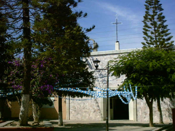 Temple of Our Lady of Mount Caramel